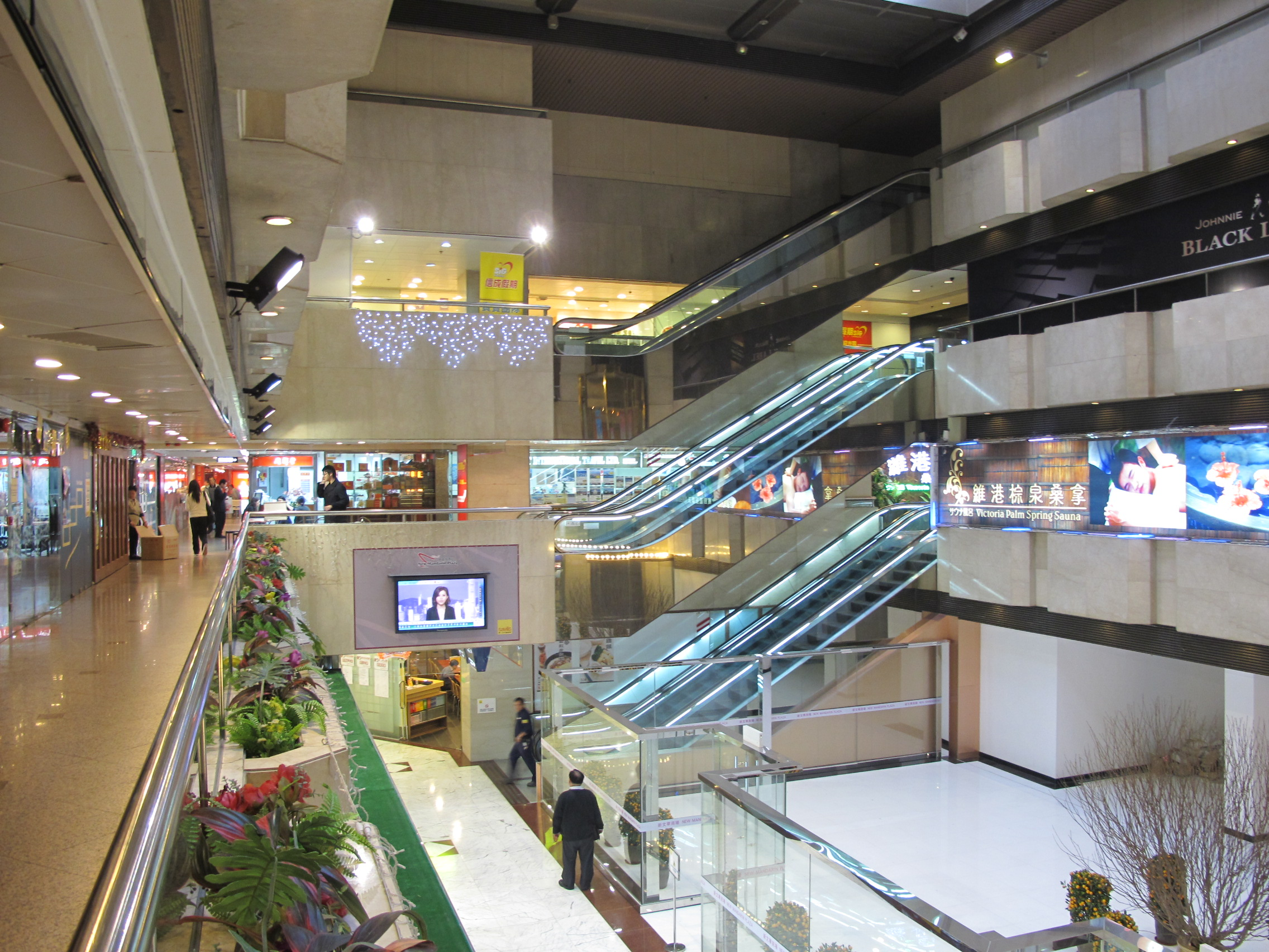 New Mandarin Plaza Atrium